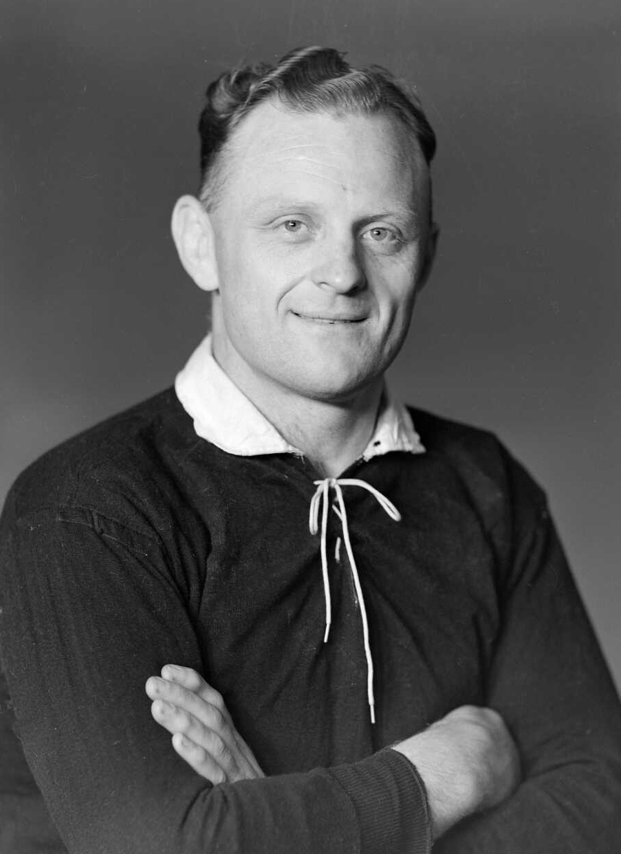 Photograph of Ray Dalton in All Black Uniform, taken by Crown Studio Ltd of Wellington.